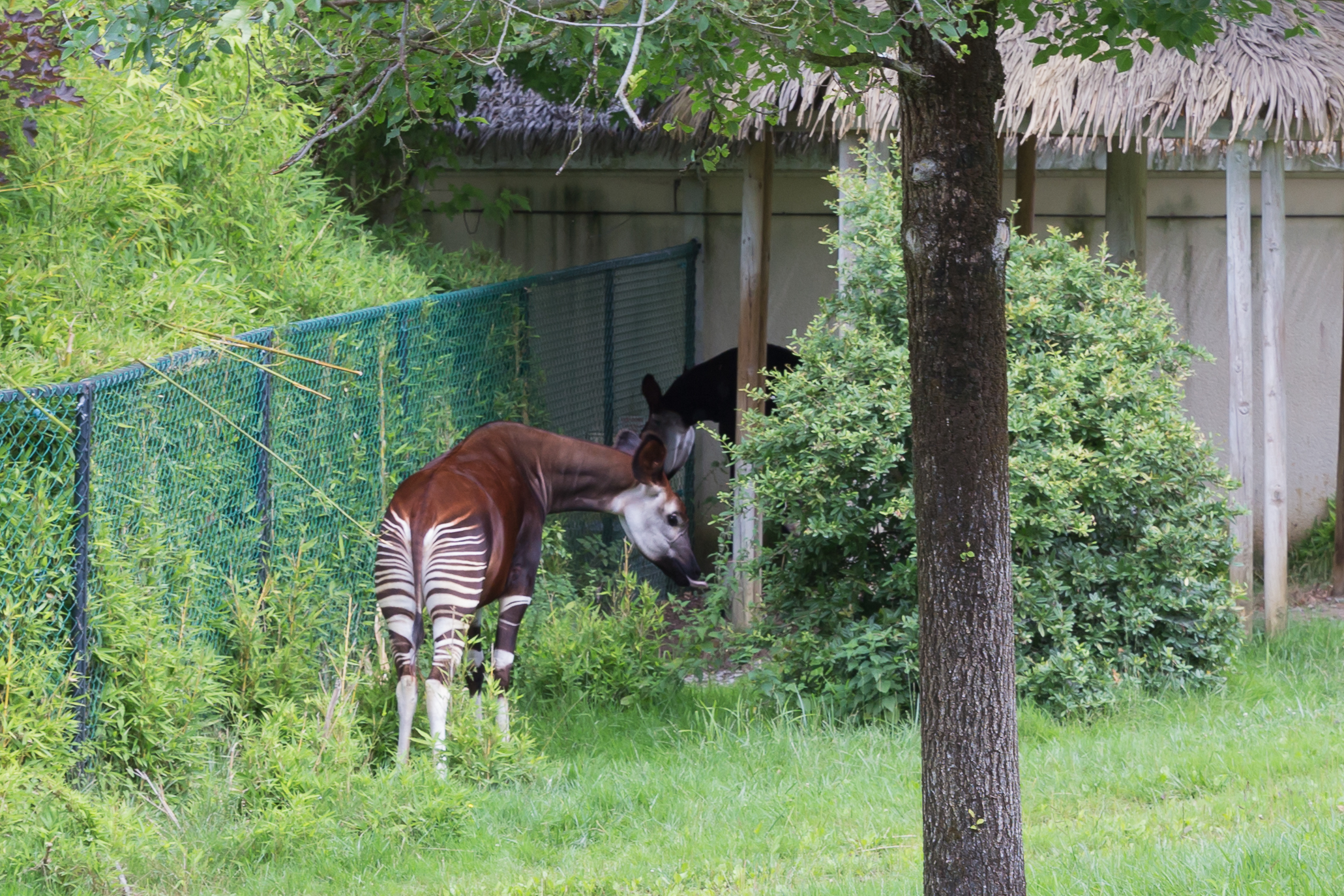 Okapia johnstoni (Okapi) in the ZooParc de Beauval in Saint-Aignan-sur-Cher, France.